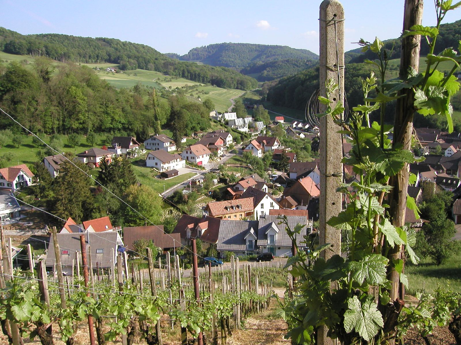 Maisprach, BL, Switzerland